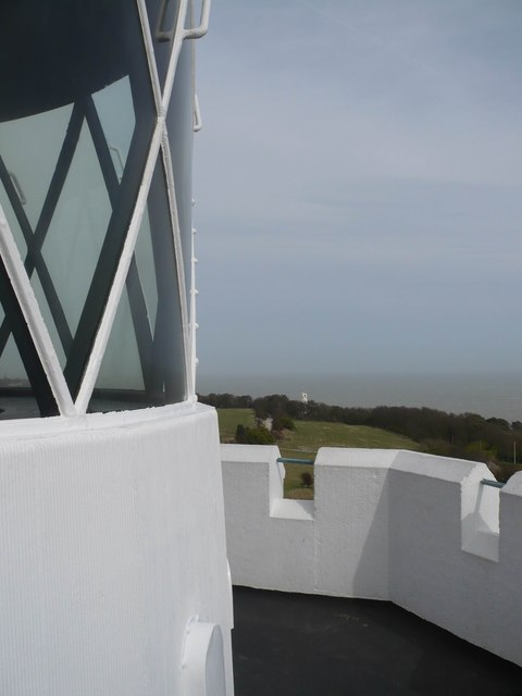 Looking towards the windmill from the top of the South Foreland Lighthouse